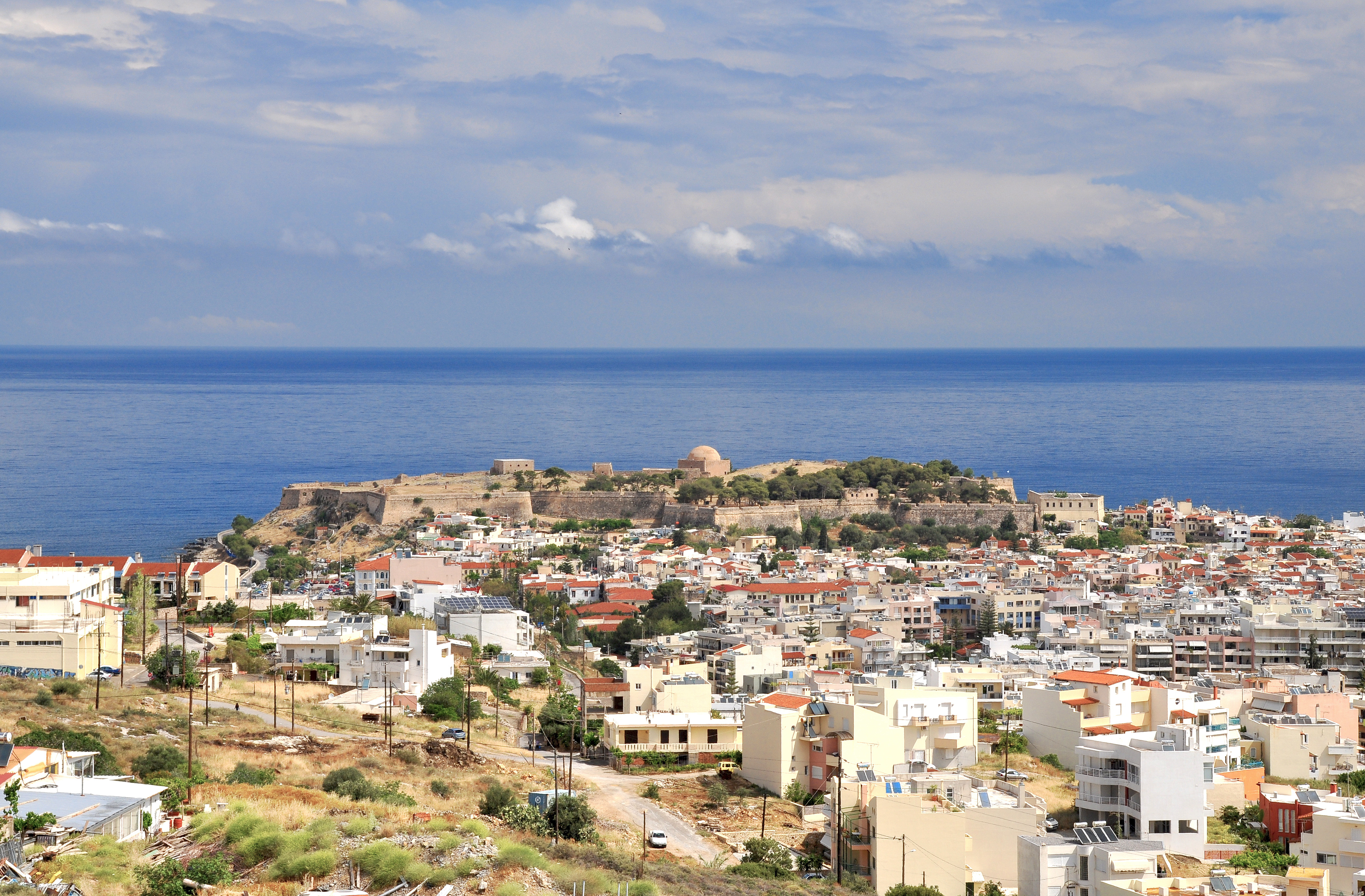 Fortezza a venetian fortress of Rethymno (Φορτέτζα του Ρεθύμνου) in Crete, Greece.